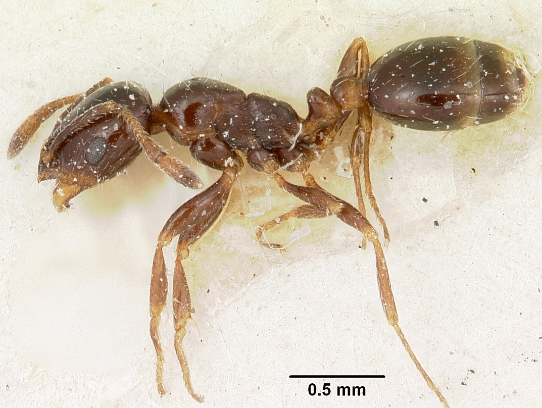 Profile view of ant Solenopsis schilleri specimen casent0103213.